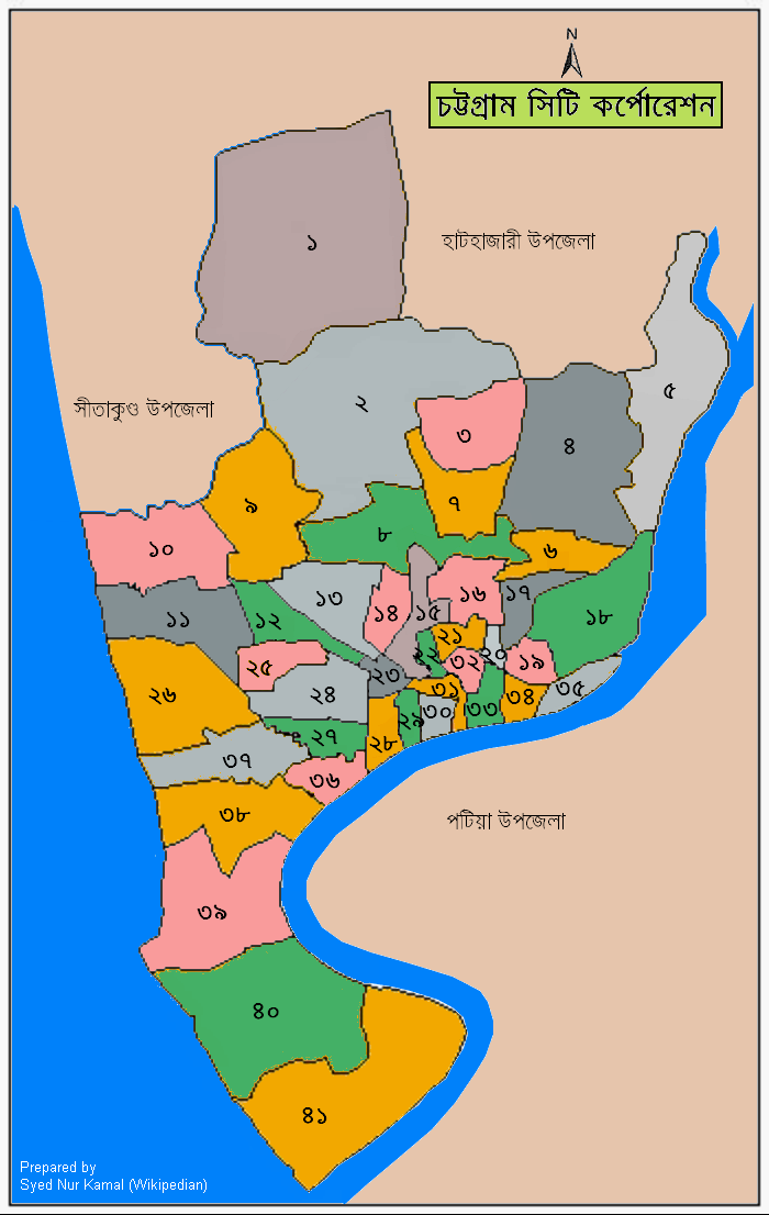 Ward base Map of Chittagong City Corporation